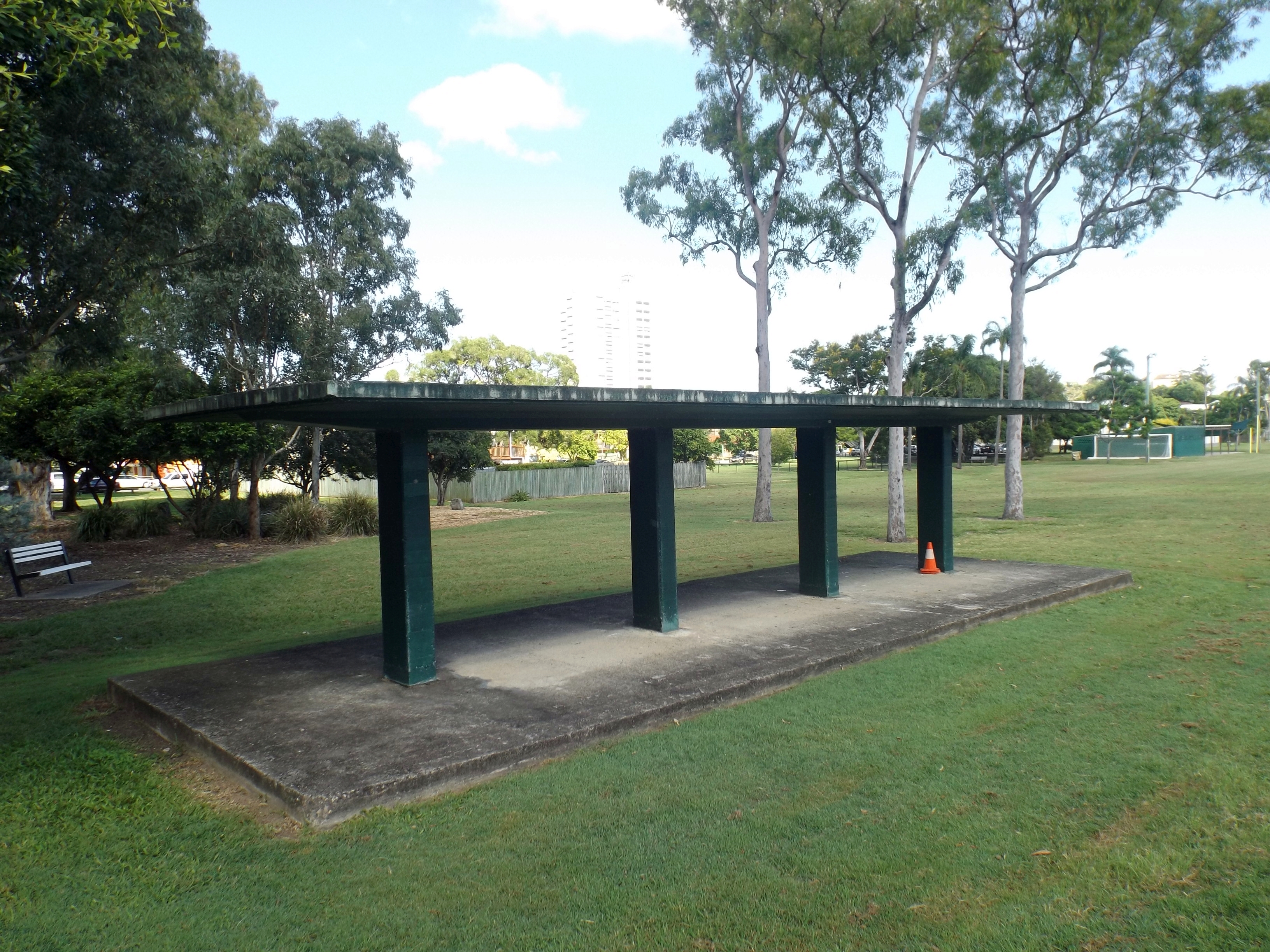 Photo of the Raymond Park (East) Air Raid Shelter at Kangaroo Point, Brisbane, Queensland, Australia.